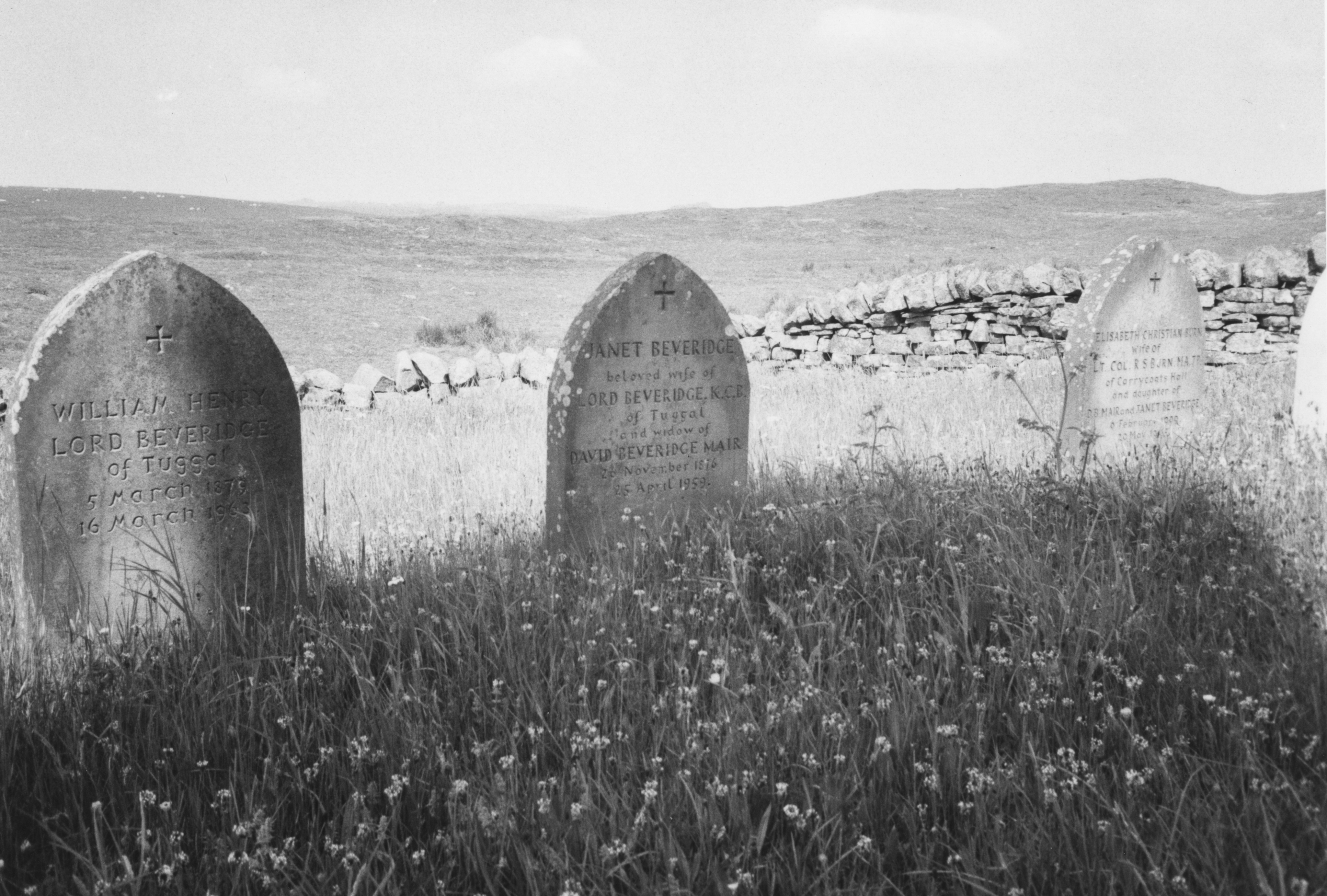 Thockrington Church, Northumberland. Taken by Graham Ashley, former registrar at LSE IMAGELIBRARY/124 Persistent URL